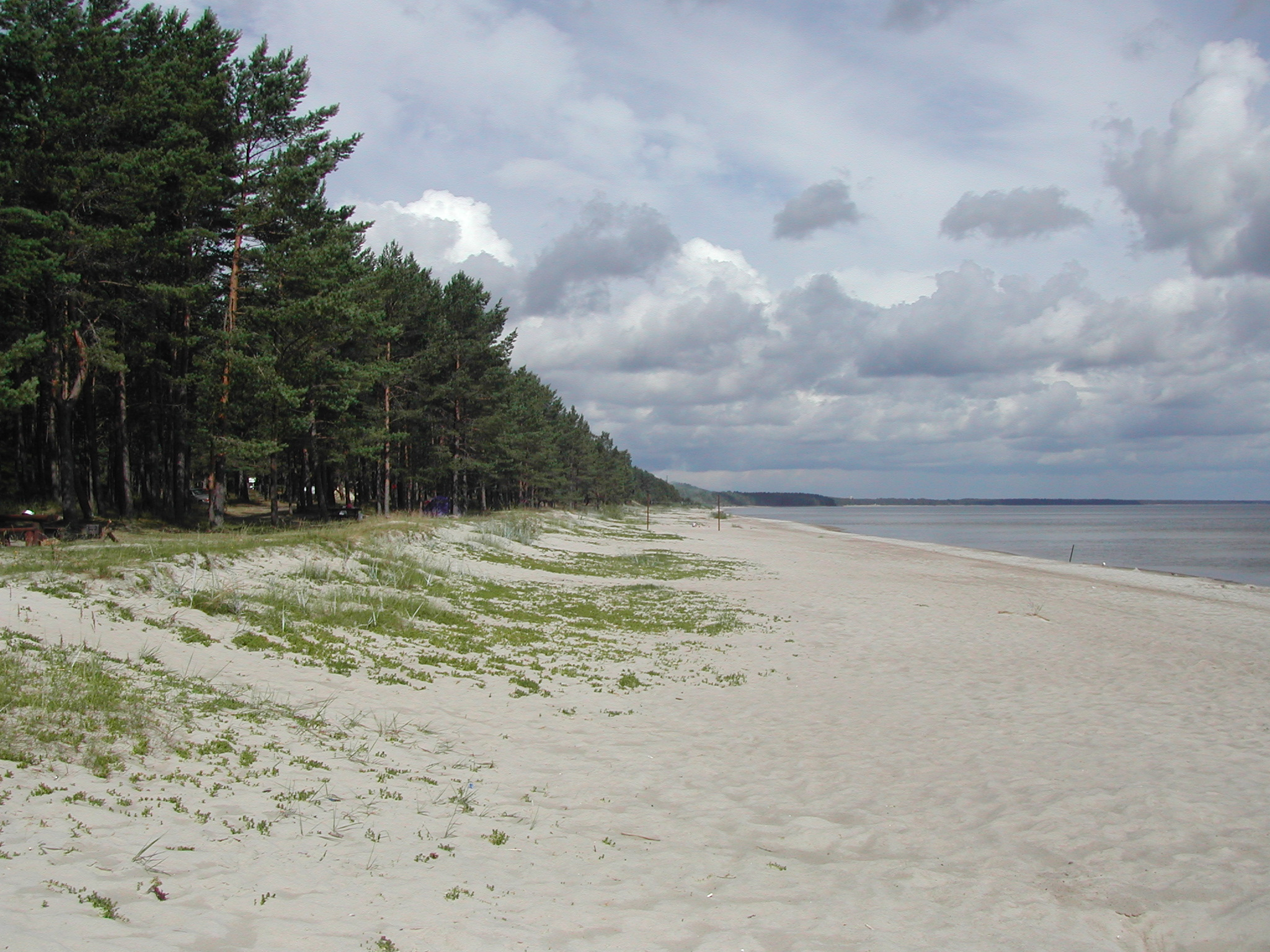 Gulf of Riga, between Plienciems and Apšuciems, Latvia